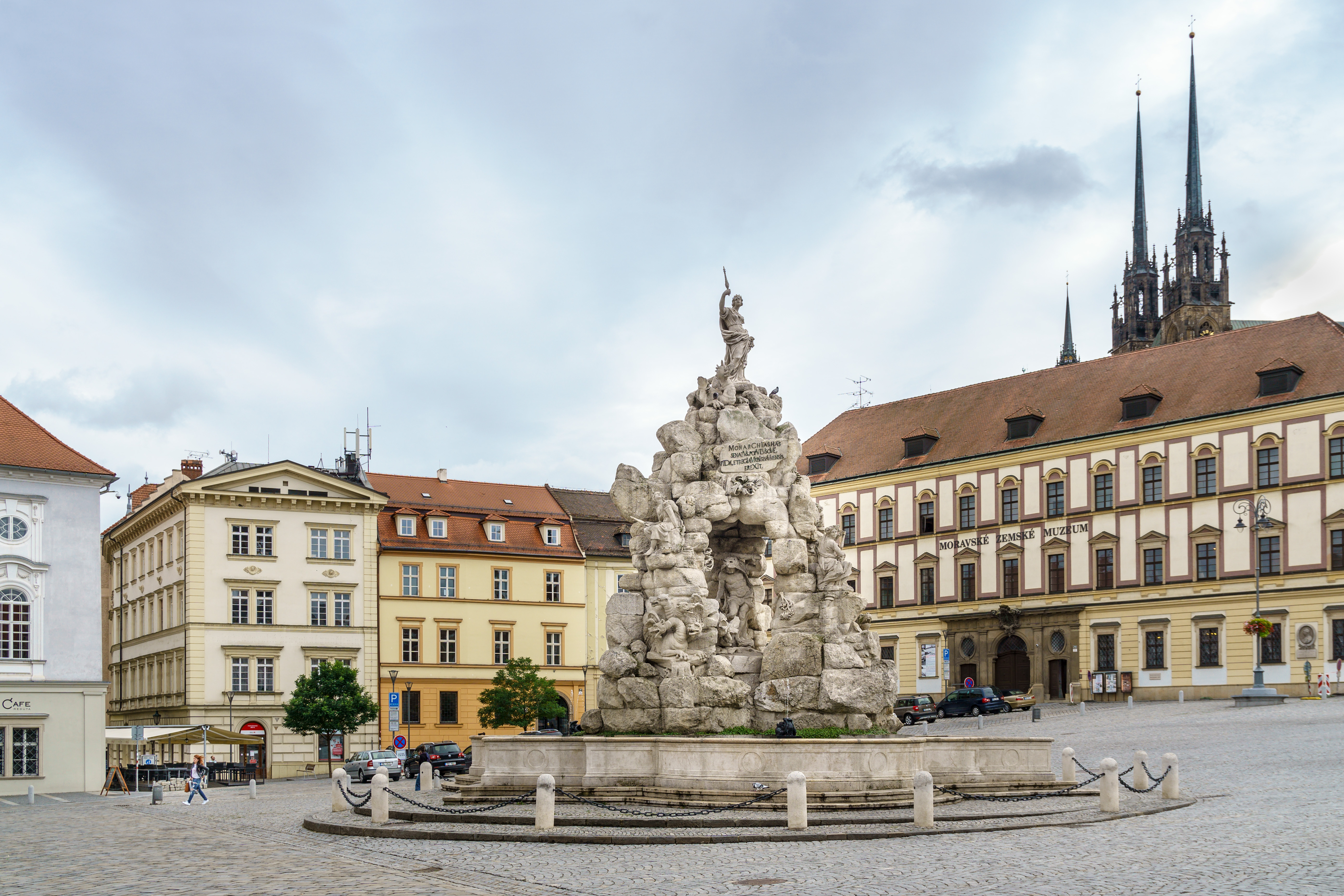 Parnas fountain, Dietrichstein palace in Brno